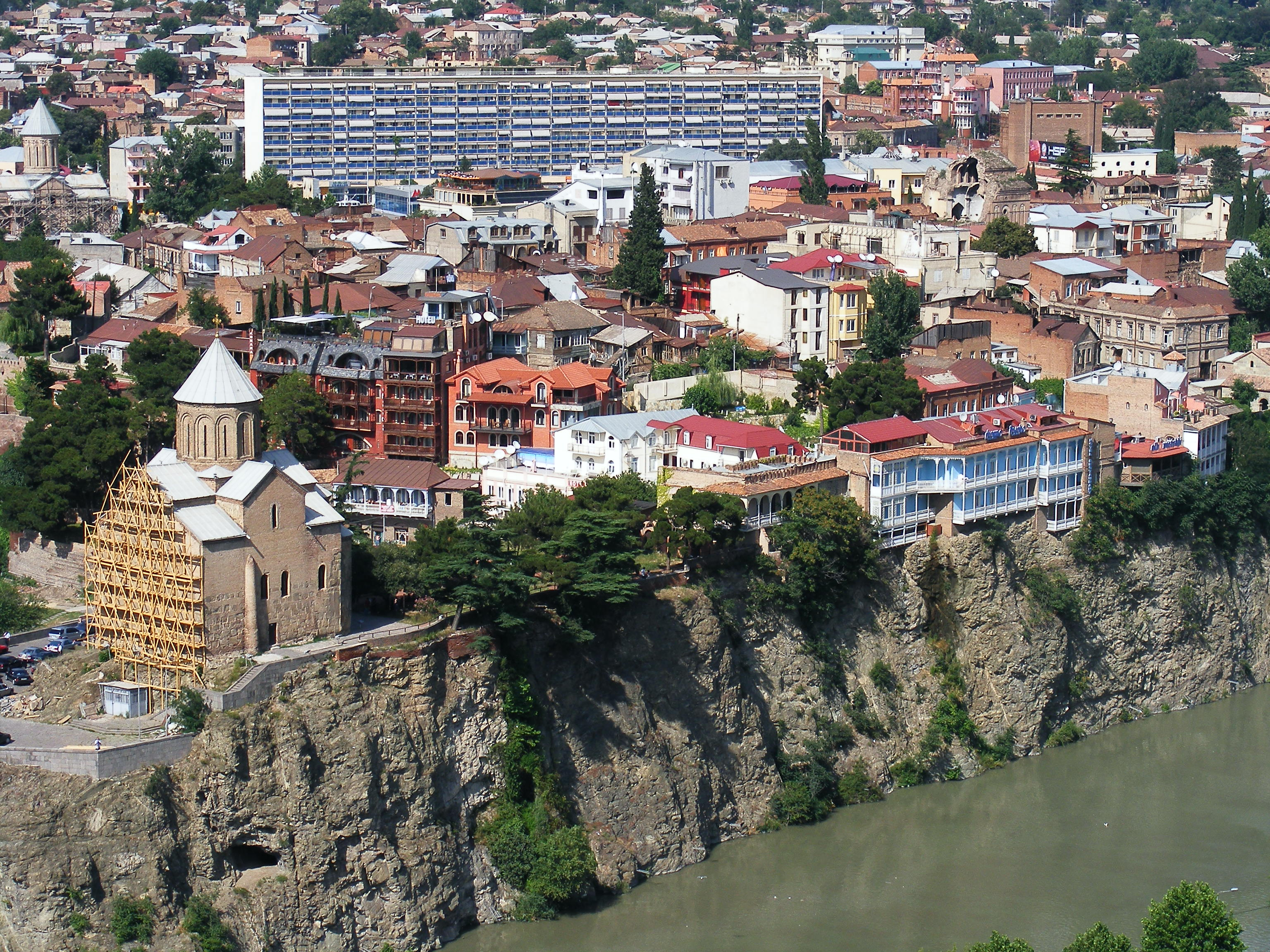 A view of the Avlabar district of Old Tbilisi. Visible are Ejmiatsin Armenian Church (upper left), the ruins of the destroyed Armenian Church of the Red Gospel (upper center right), and the Georgian Metekhi Church (lower left). (Taken from a small church wall on a hill a bit outside the center.)